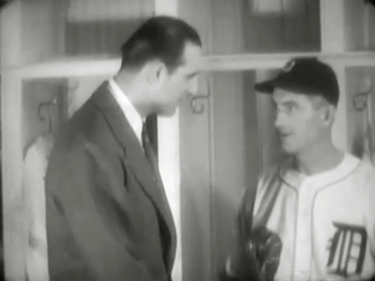 Detroit Tigers slugger Hank Greenberg meets with manager Del Baker before Greenberg leaves Tigers to fight in World War II.